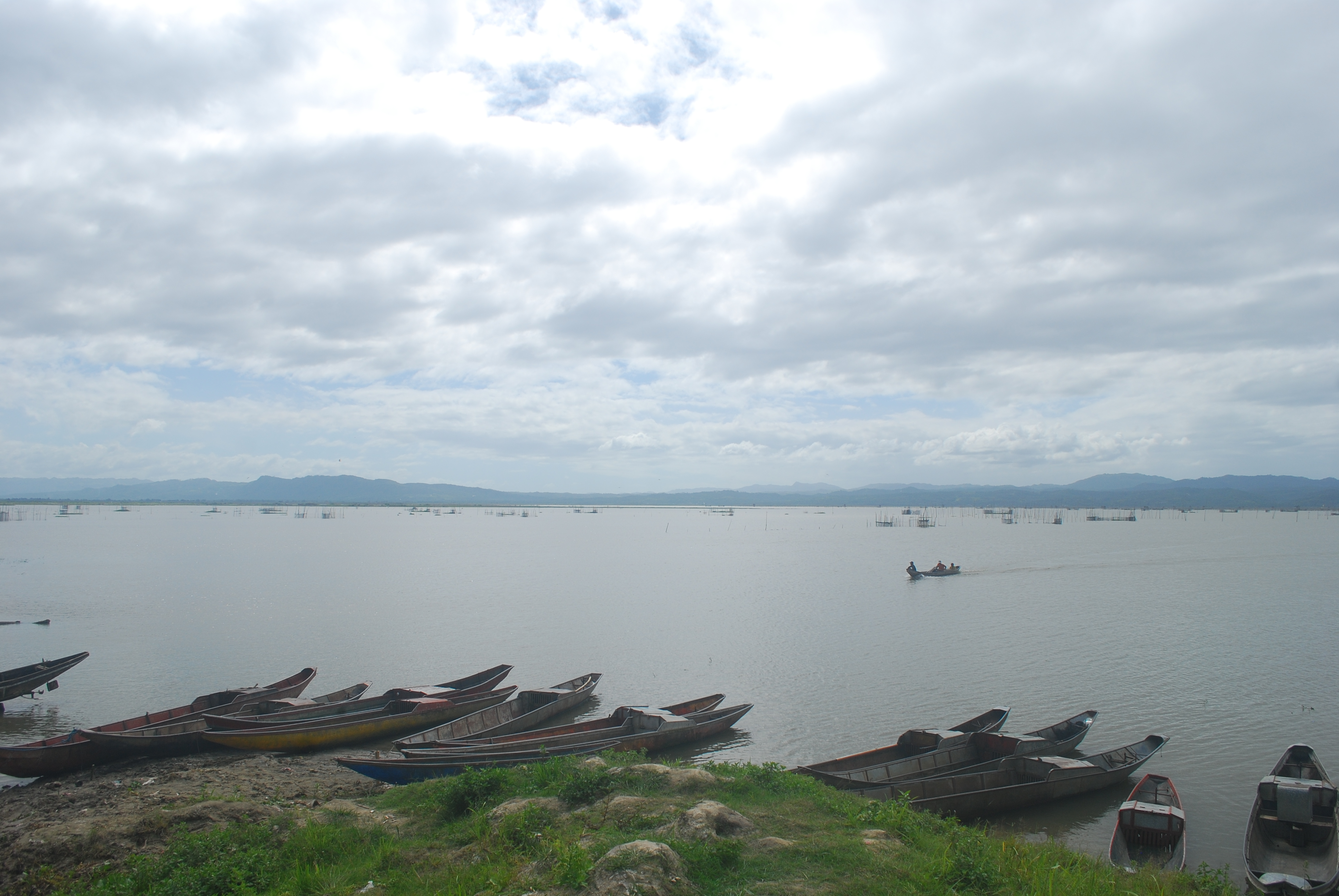 Boats at lake bato